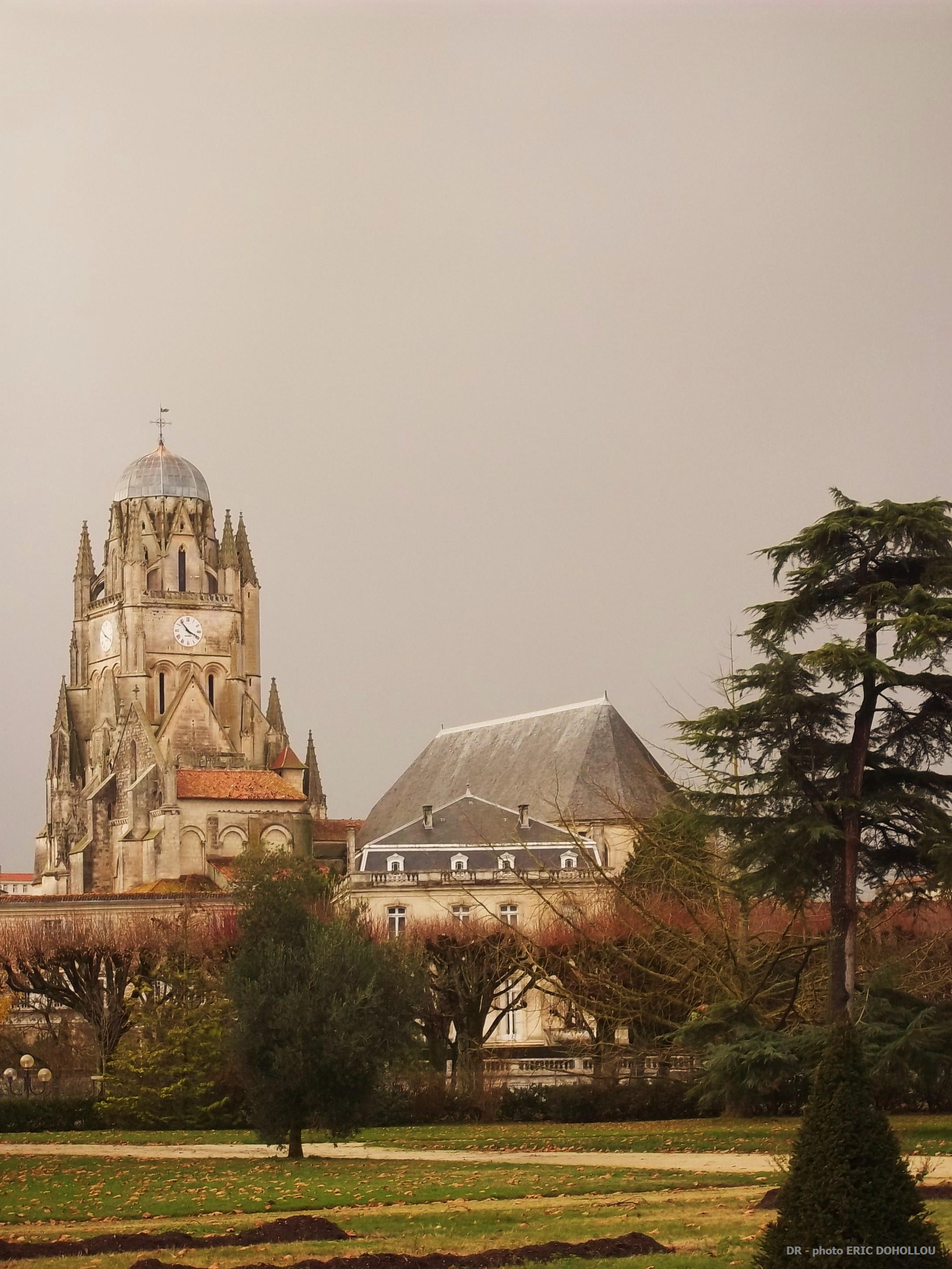 Cathédrale St Pierre de Saintes, vue depuis le jardin public